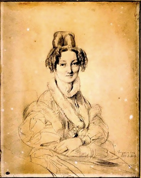 Madame Hittorff, born Rose-Élisabeth Lepère, the daughter of the architect Jean-Baptiste Lepère.